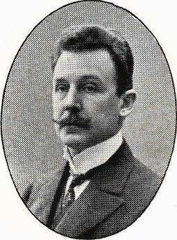 Frey Herman Svenson (1866-1927), Swedish psychiatrist